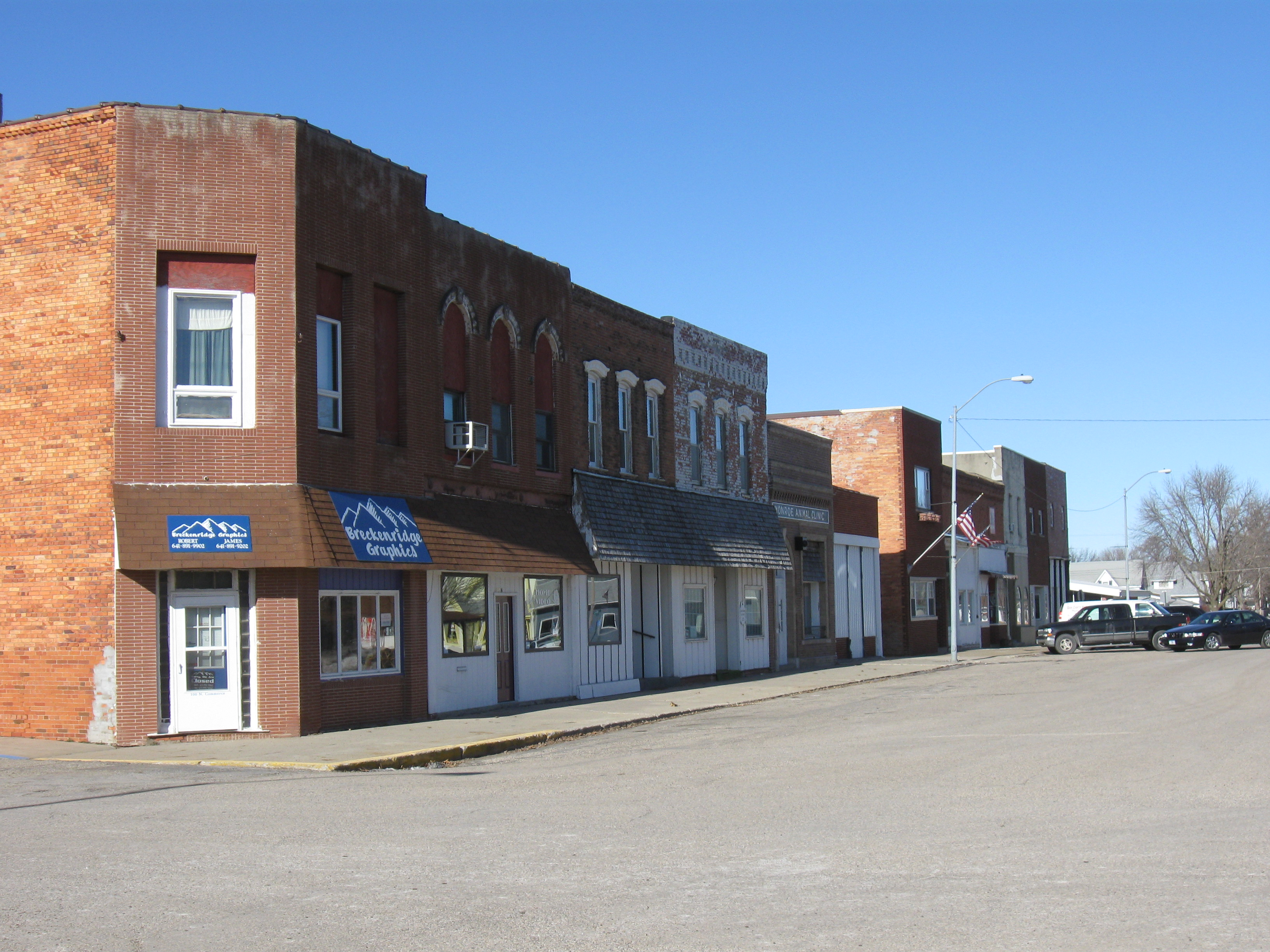 Monroe, Iowa. Billwhittaker (talk) 17:09, 6 January 2009 (UTC)